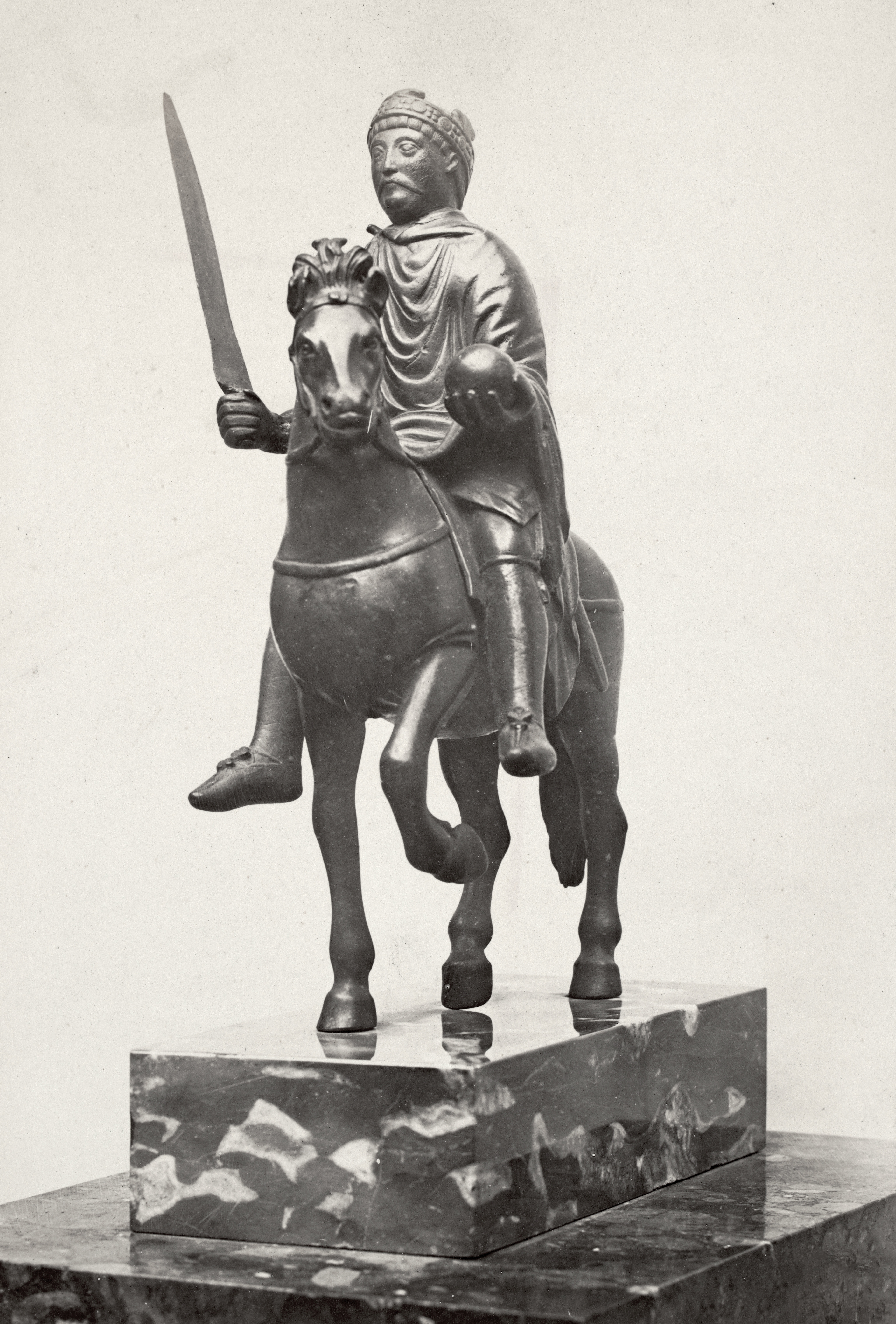 Statue of Charlemagne mounted on a horse holding a sword, on marble base, Musée Carnavalet, Paris, France.